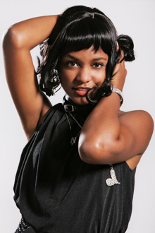 Neide Van-Dunen